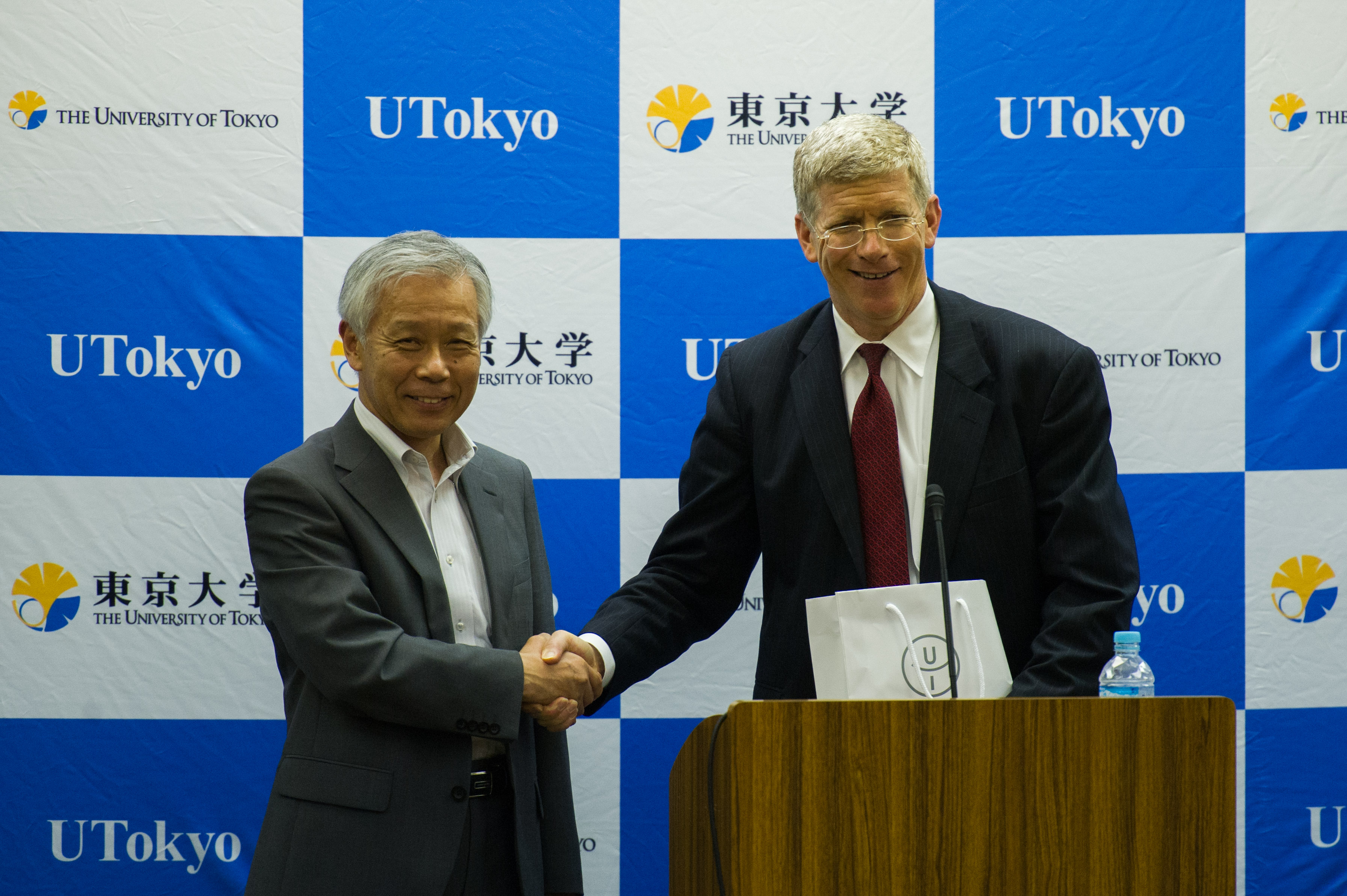 Daniel Poneman, Deputy Secretary of Energy, met Yōichirō Matsumoto, Managing Director of the National University Corporation University of Tokyo, Executive Vice President of the University of Tokyo, at the Faculty of Engineering Bldg. 8, Hongo Campus, University of Tokyo, in Bunkyō Ward, Tōkyō Metropolis on June 12, 2014.